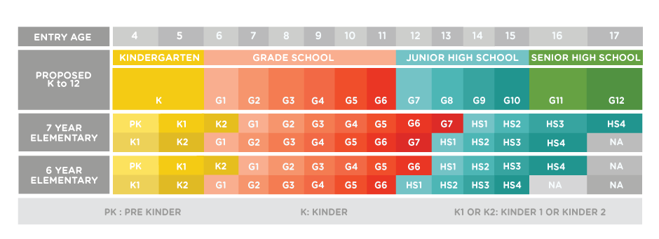 Private schools craft their transition plans based on: (1) current/previous entry ages for Grade 1 and final year of Kinder, (2) duration of program , and most importantly, (3) content of curriculum offered.